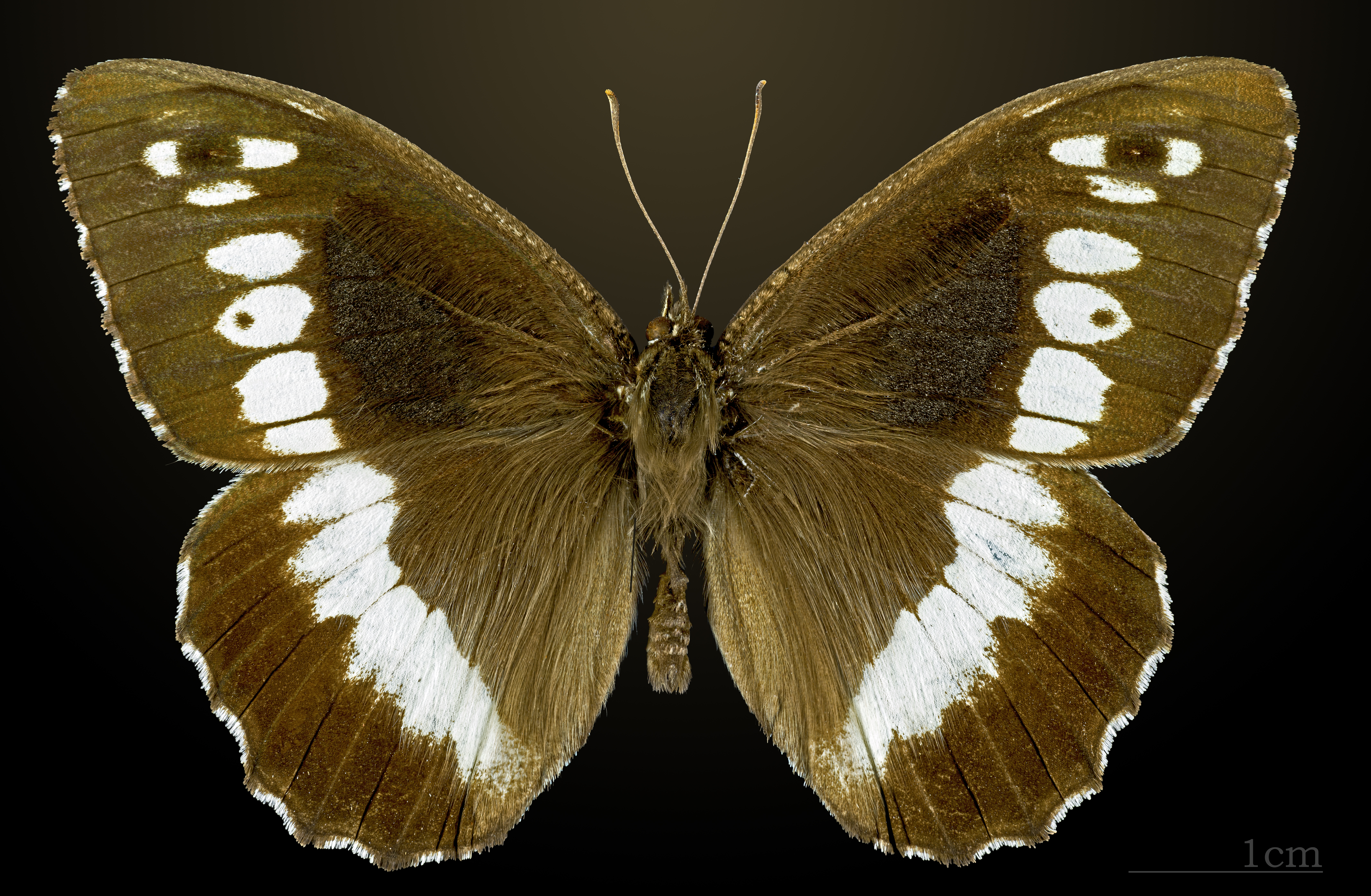 Great Banded Grayling - ♂ Dorsal side Locality: Cahors, Lot, France